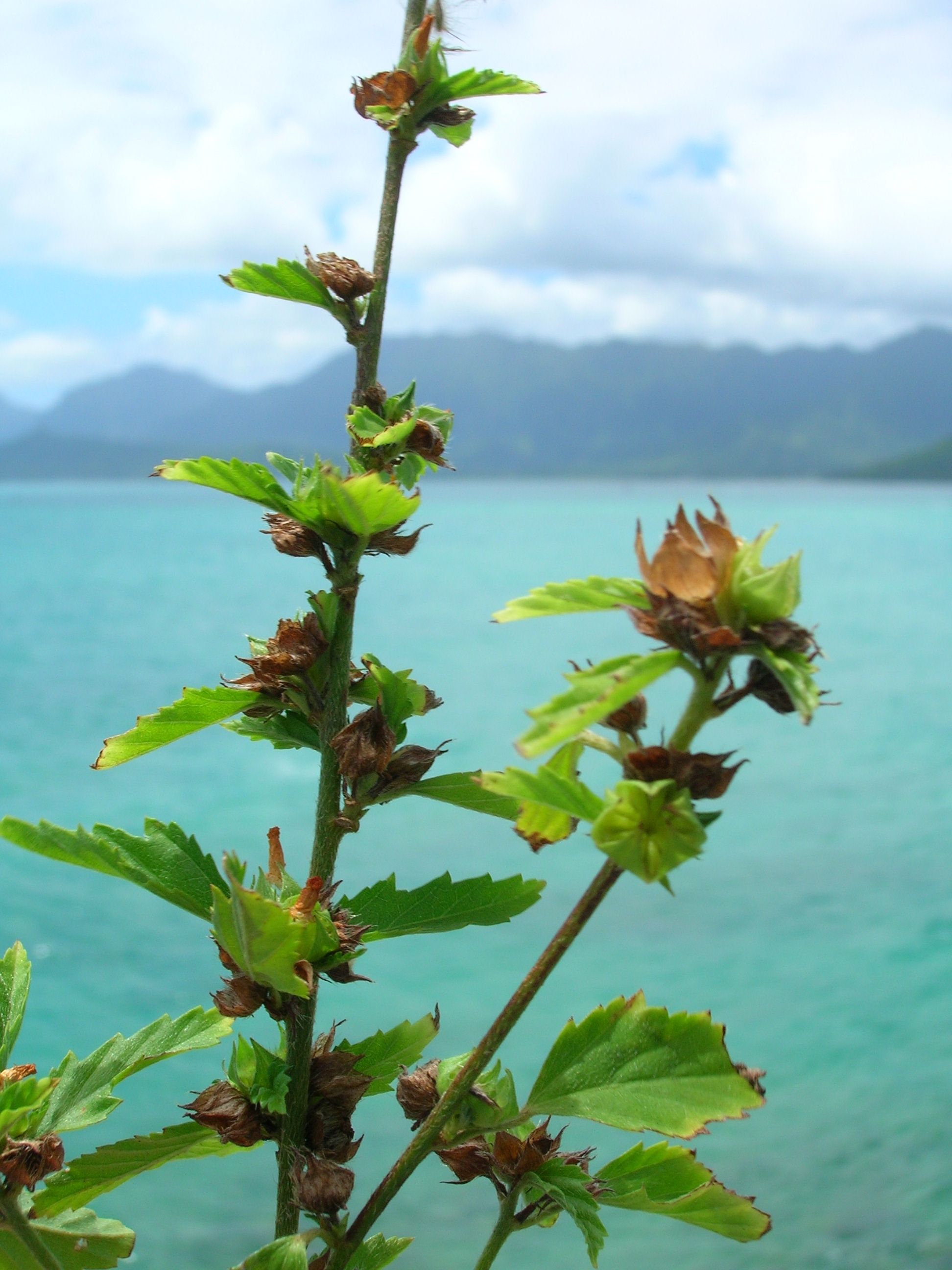 Malvastrum coromandelianum subsp. coromandelianum (habit). Location: Oahu, Mokolii